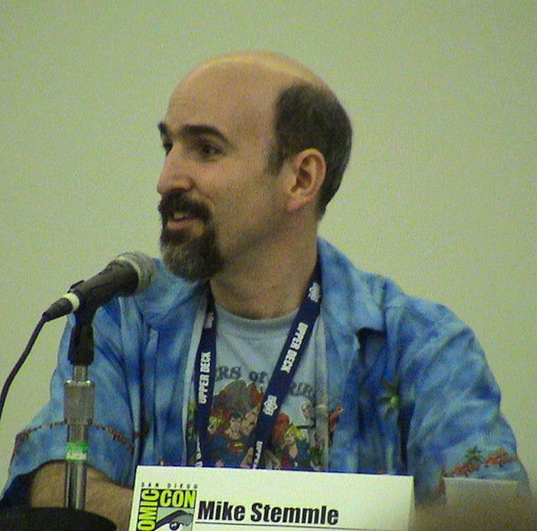 Michael Stemmle on the panel for "The Secrets Behind Turning Comics into Games" at the San Diego Comic-Con International in 2008.